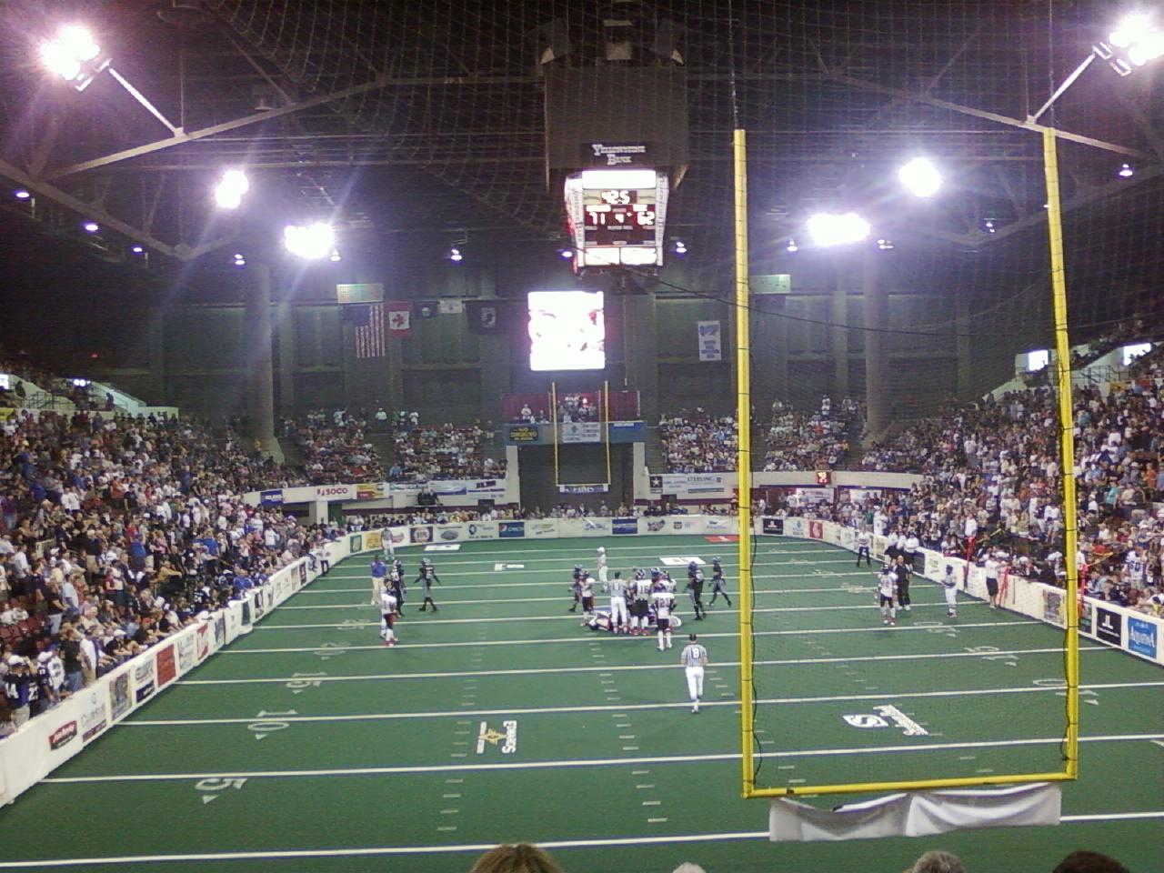 The Final Seconds of the Billings Outlaw championship win in the 2009 United Bowl hosted in Rimrock Auto Arena.